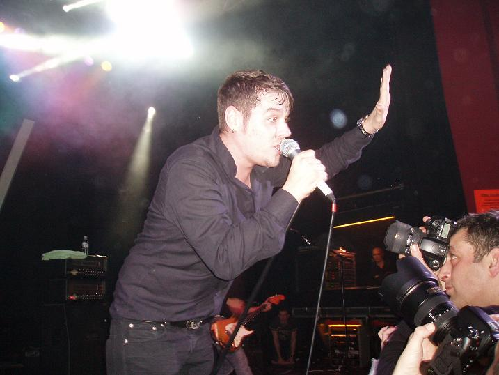 Matt Willis, live in London